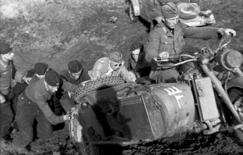 Information added by Wikimedia users.General Johann Mickl of 11. Panzer-Division lends a hand getting a motorcycle up a hill.[1]